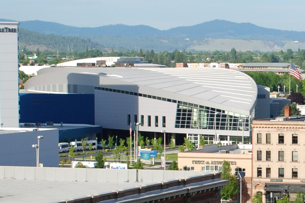 Group Health Exhibit Hall as seen from the Parkade parking garage.